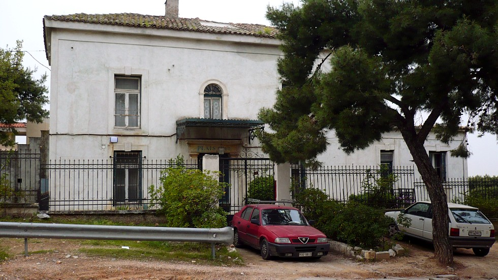 The above picture depicts the Plaisance residence at Penteli.